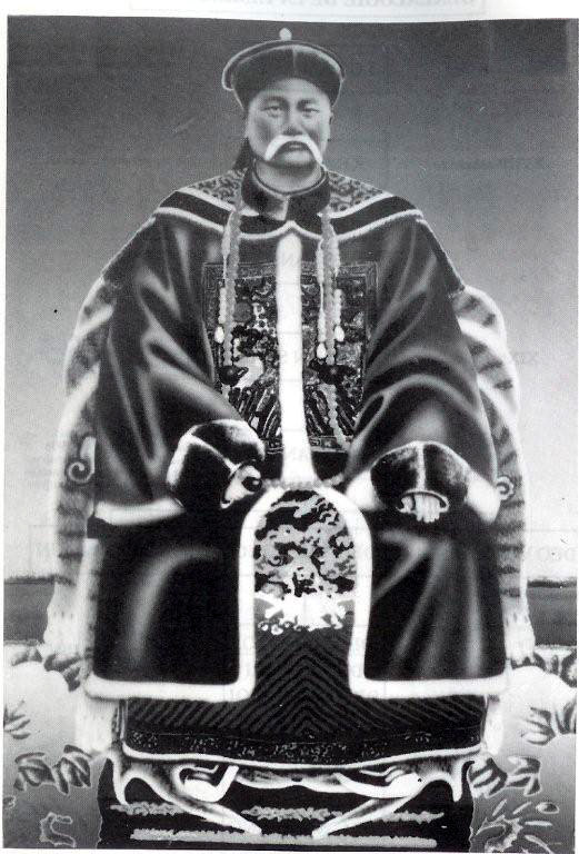 SA Deo Van Tri en costume de mandarin Chinois